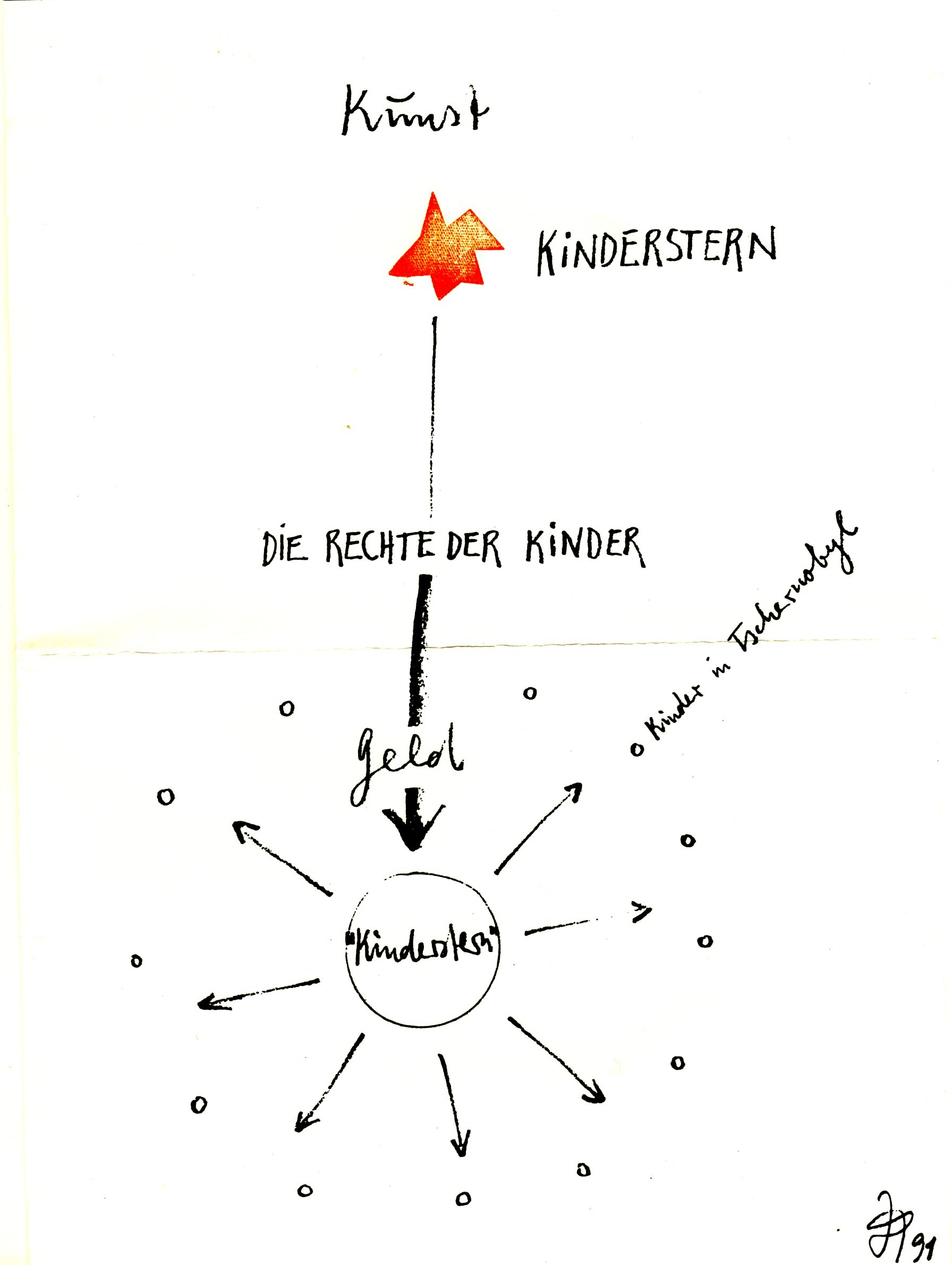 How art can work to stnad for the childern rights